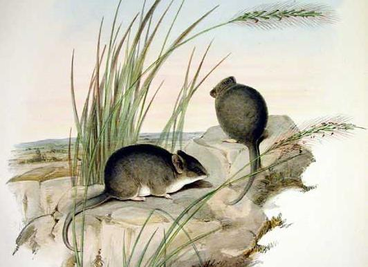 Sminthopsis macroura (orig. Podabrus macrourus)